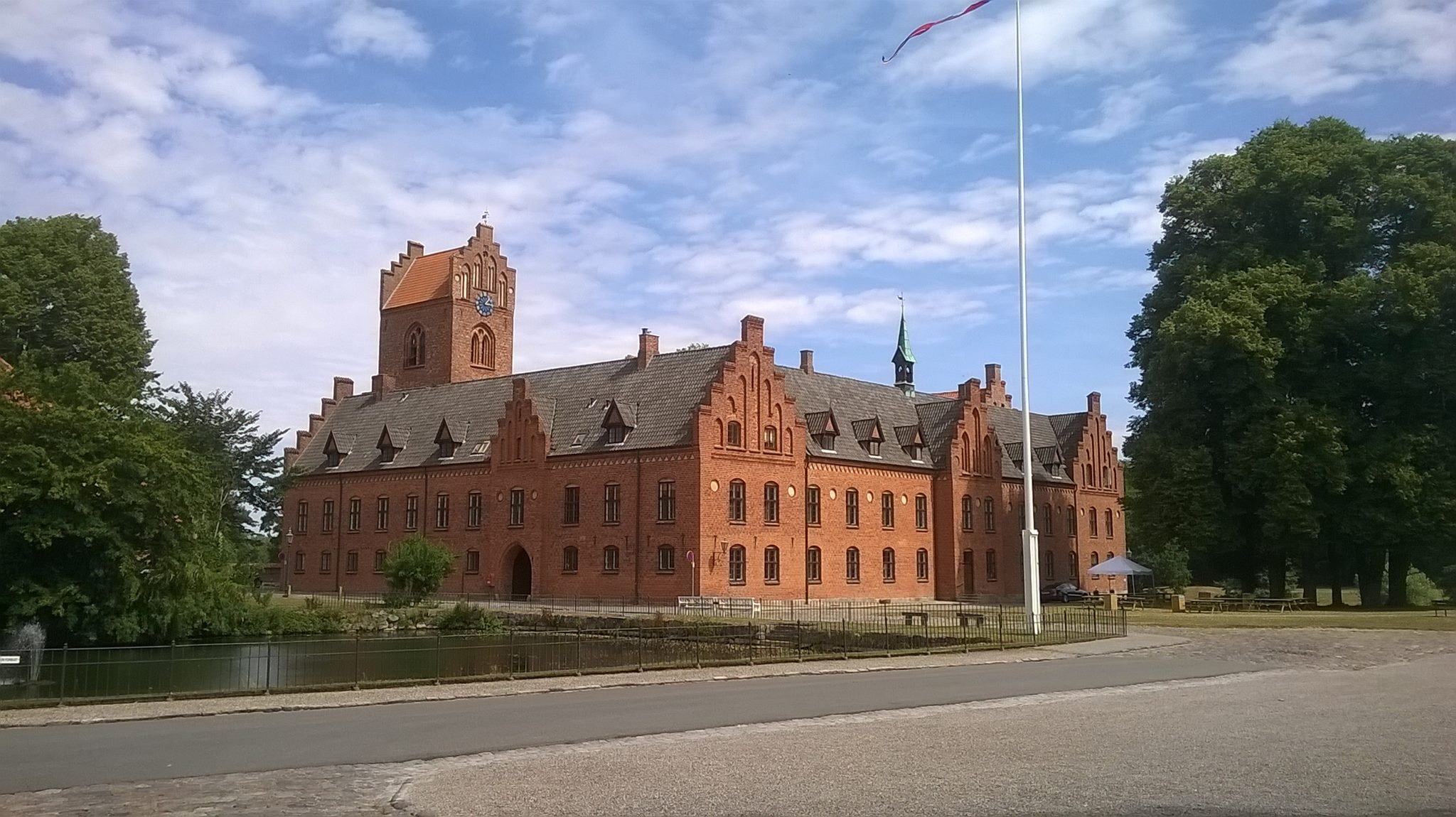 A picture of the Herlufsholm main building